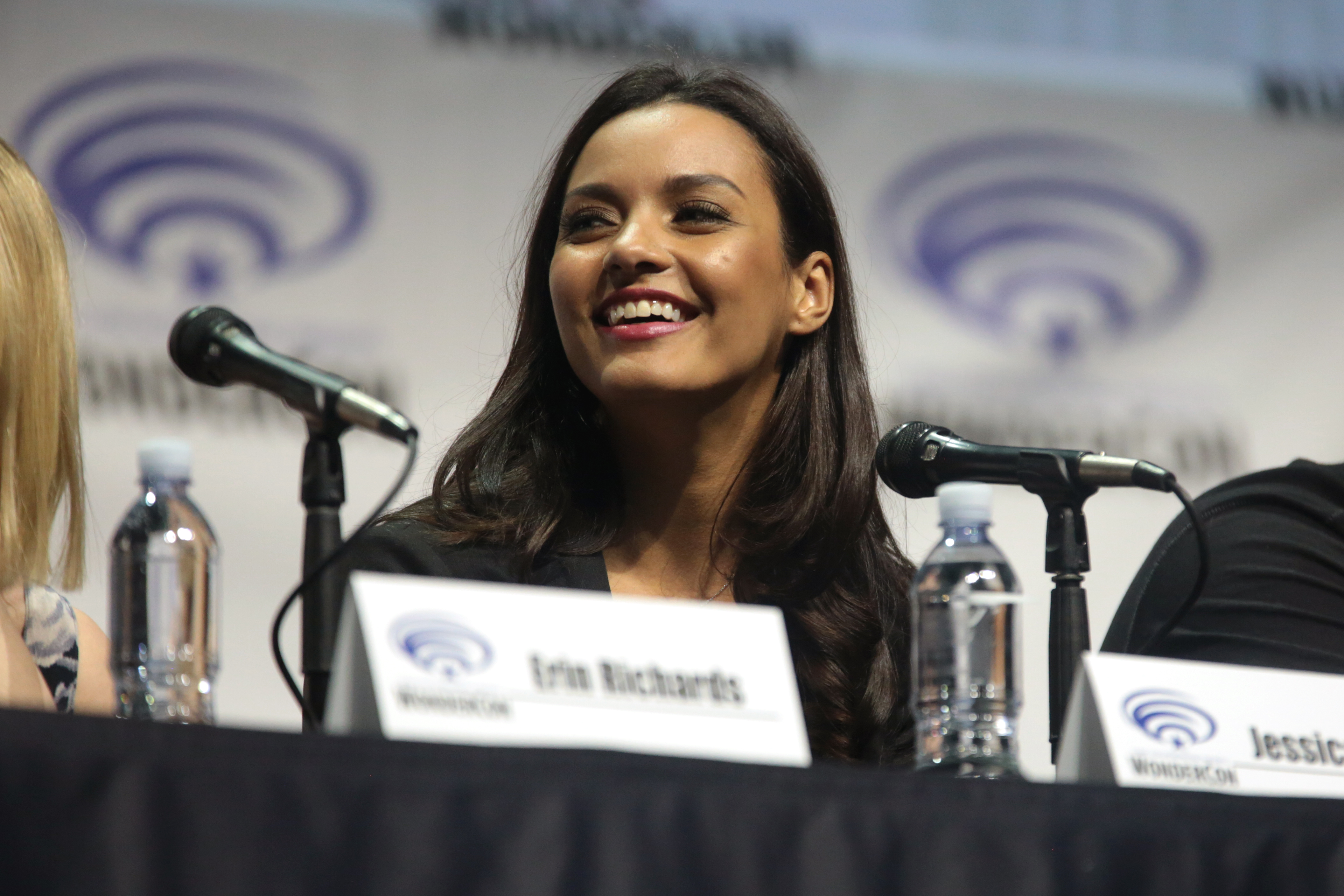 Jessica Lucas speaking at the 2017 WonderCon, for "Gotham", at the Anaheim Convention Center in Anaheim, California.